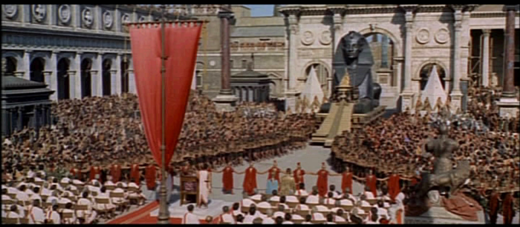 Screenshot from the trailer for the film Cleopatra.